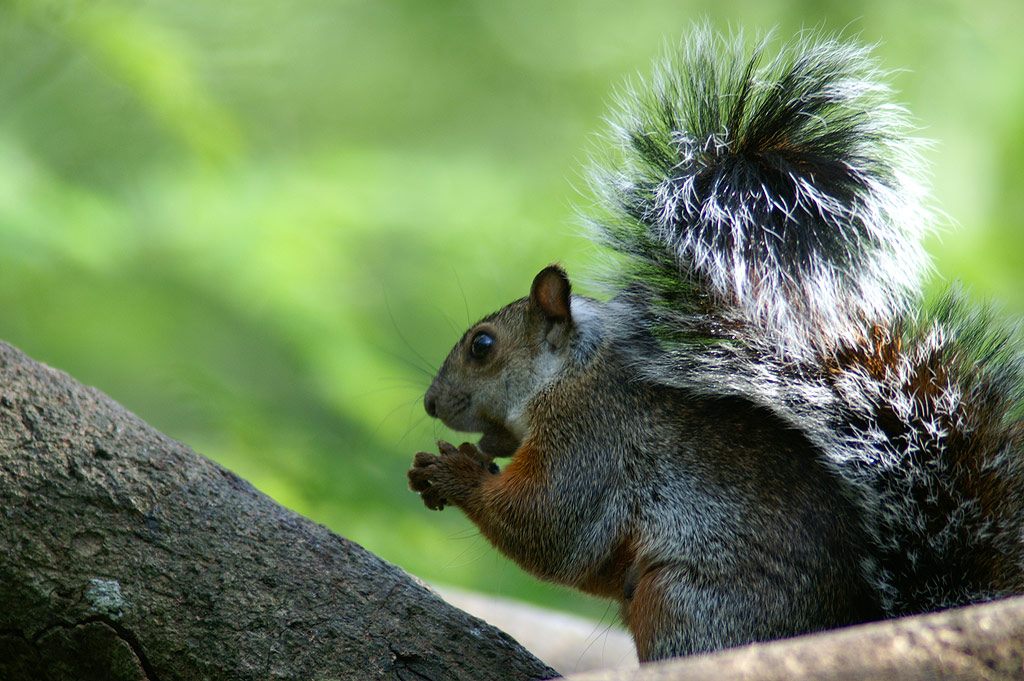 Costa-Rica Variegated Squirrel